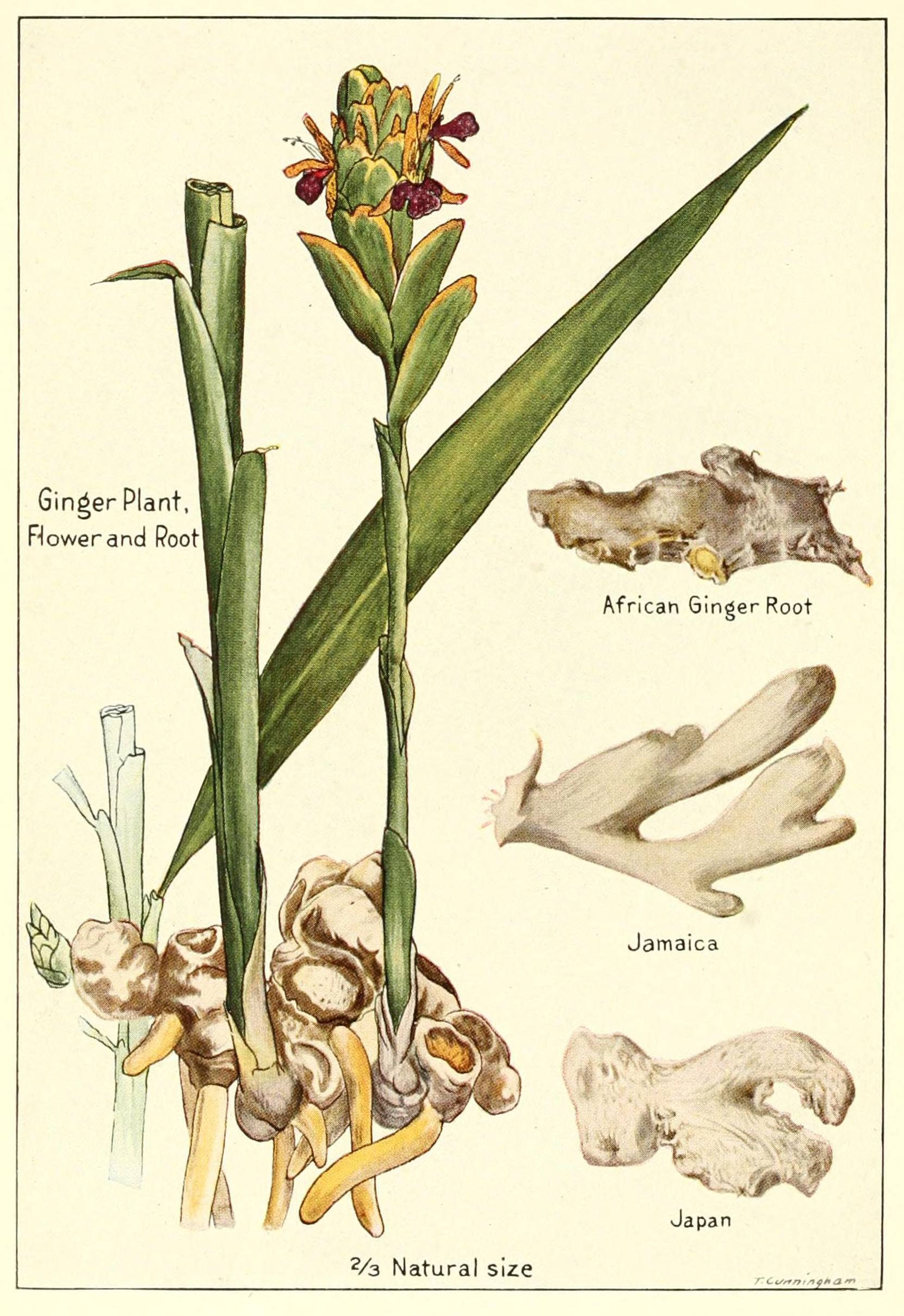 Shows a ginger plant with roots, leaves and flowers and differences between African, Jamaican and Japanese varieties.